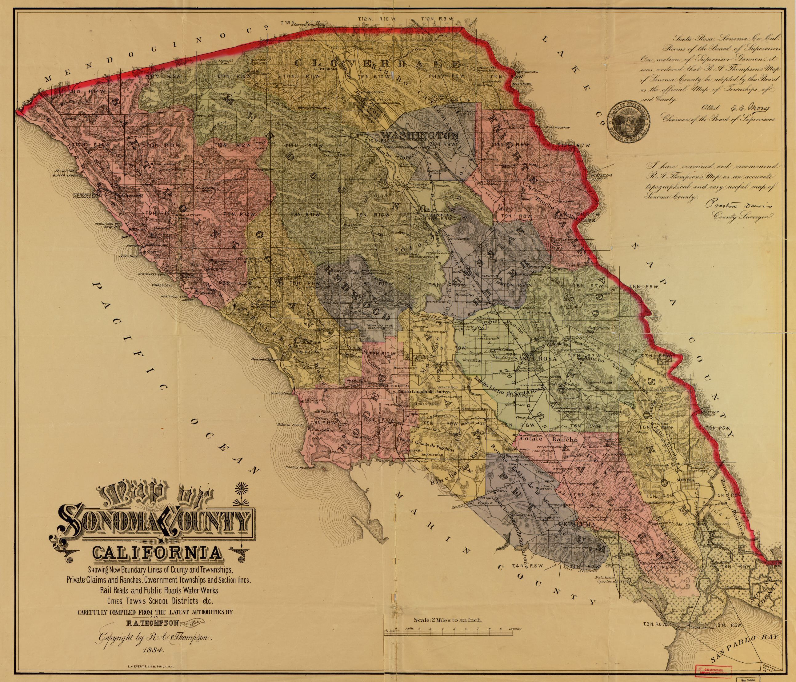 Map of Sonoma County, California, 1884, showing civil townships